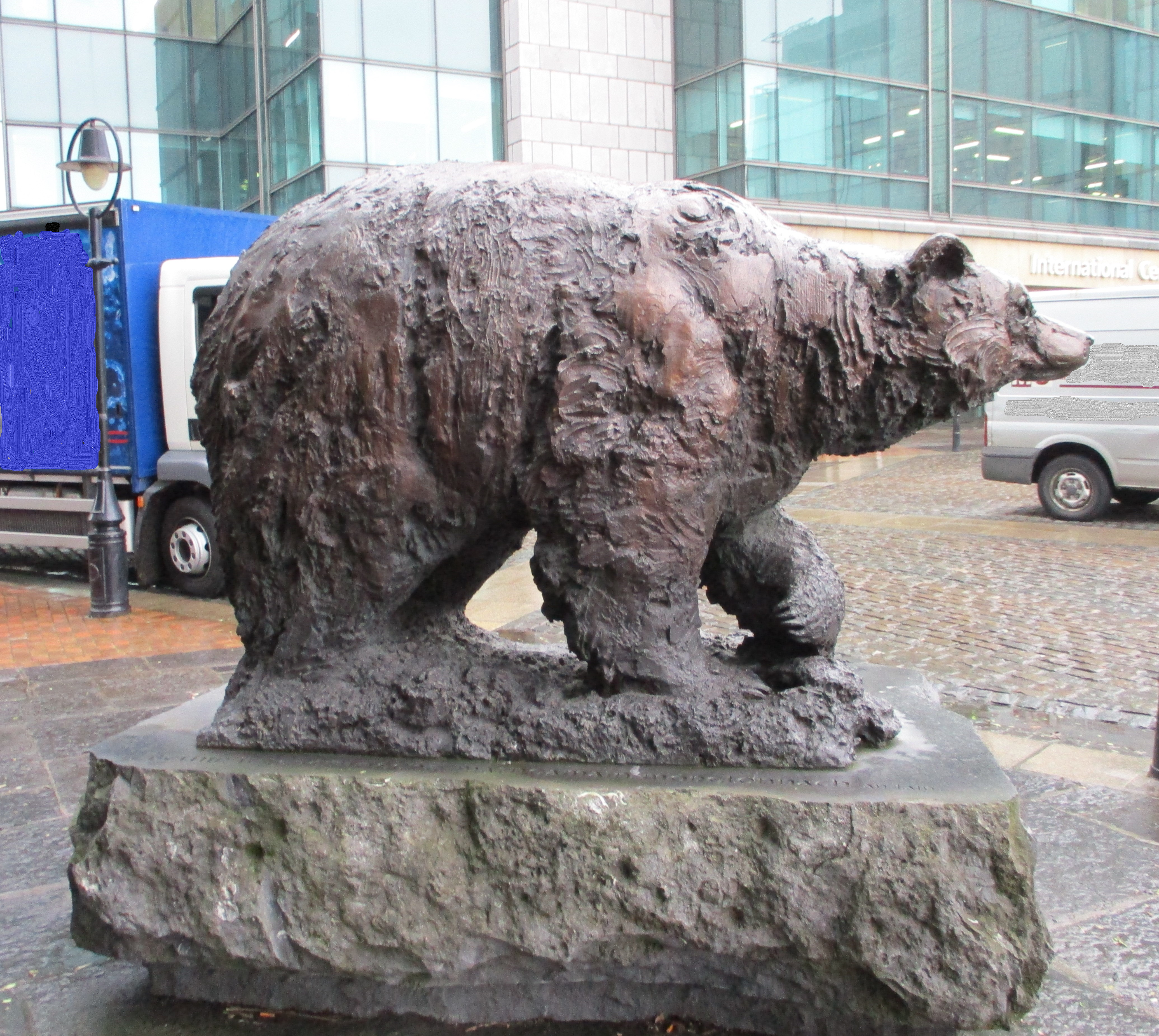 One of a pair 'Bear and Bull'. Bull sculpture is in lobby on other side of the building. Don Cronin 1999